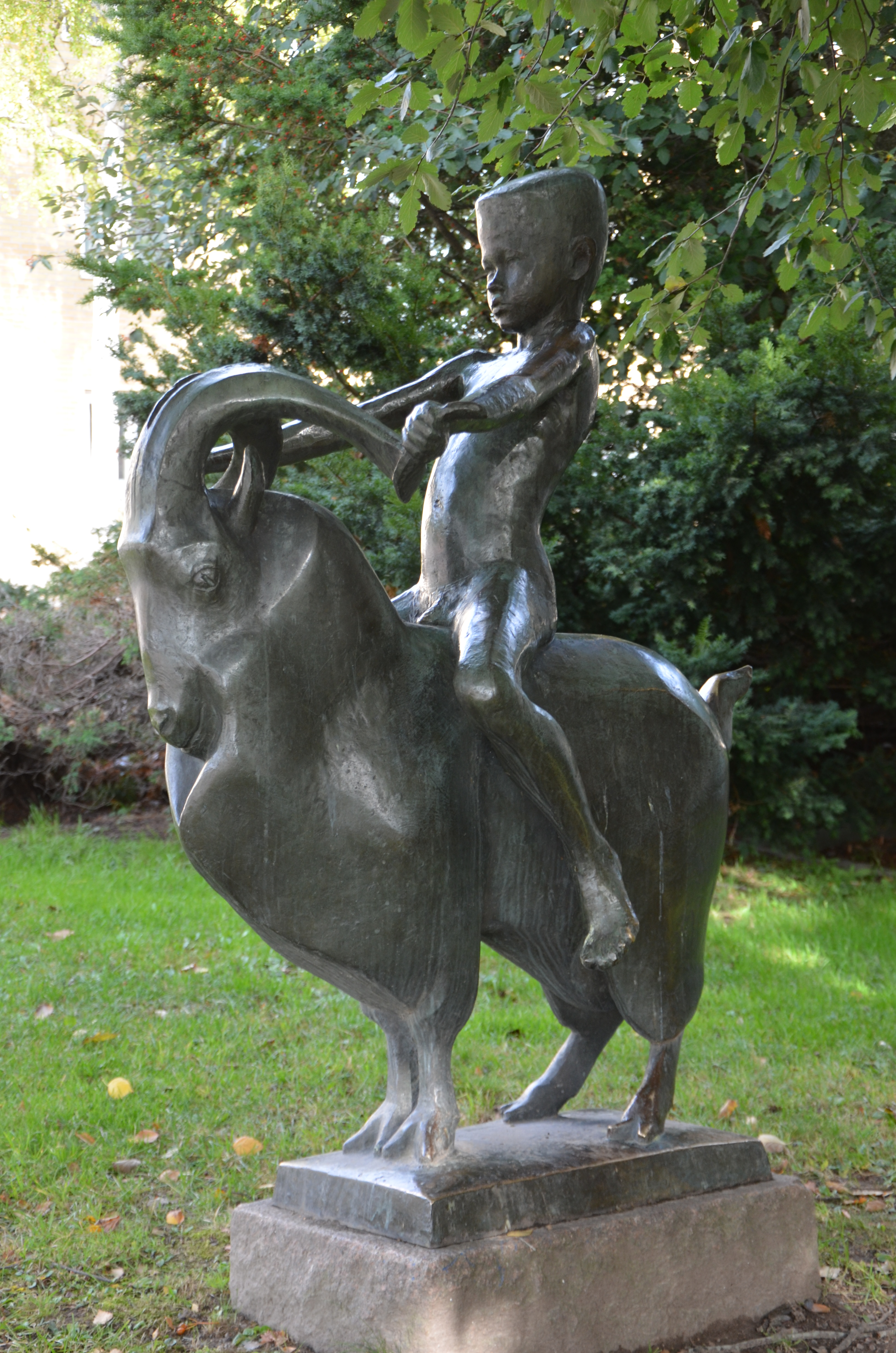 Hanseman av Lars Andersson, Cornelisgatan/Markusgatan i Avesta